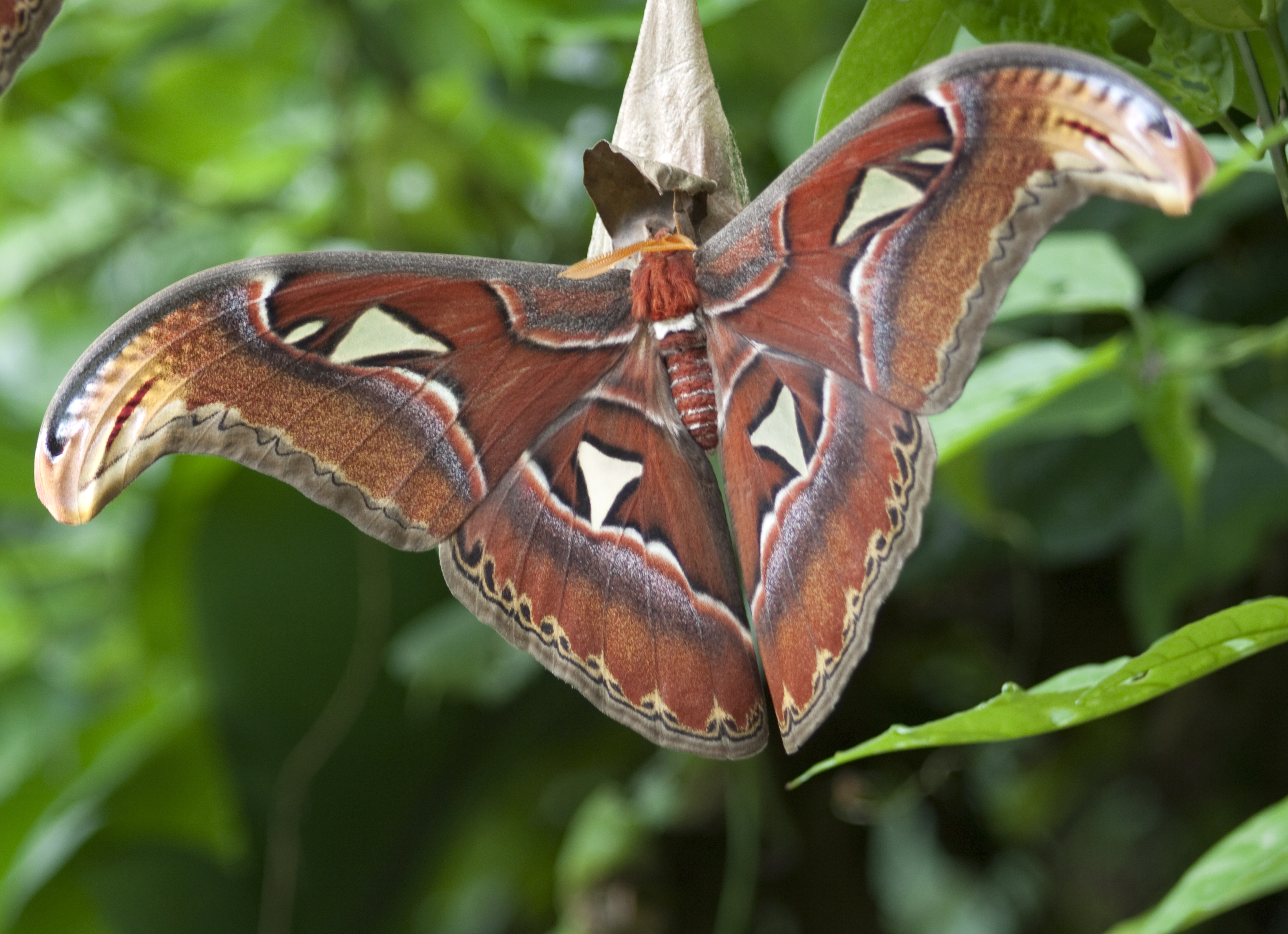 Atlas Moth